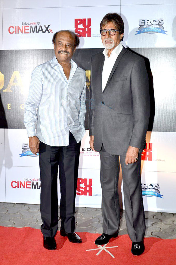 Rajinikanth with Amitabh Bachchan at Premiere of the film 'Kochadaiiyaan'